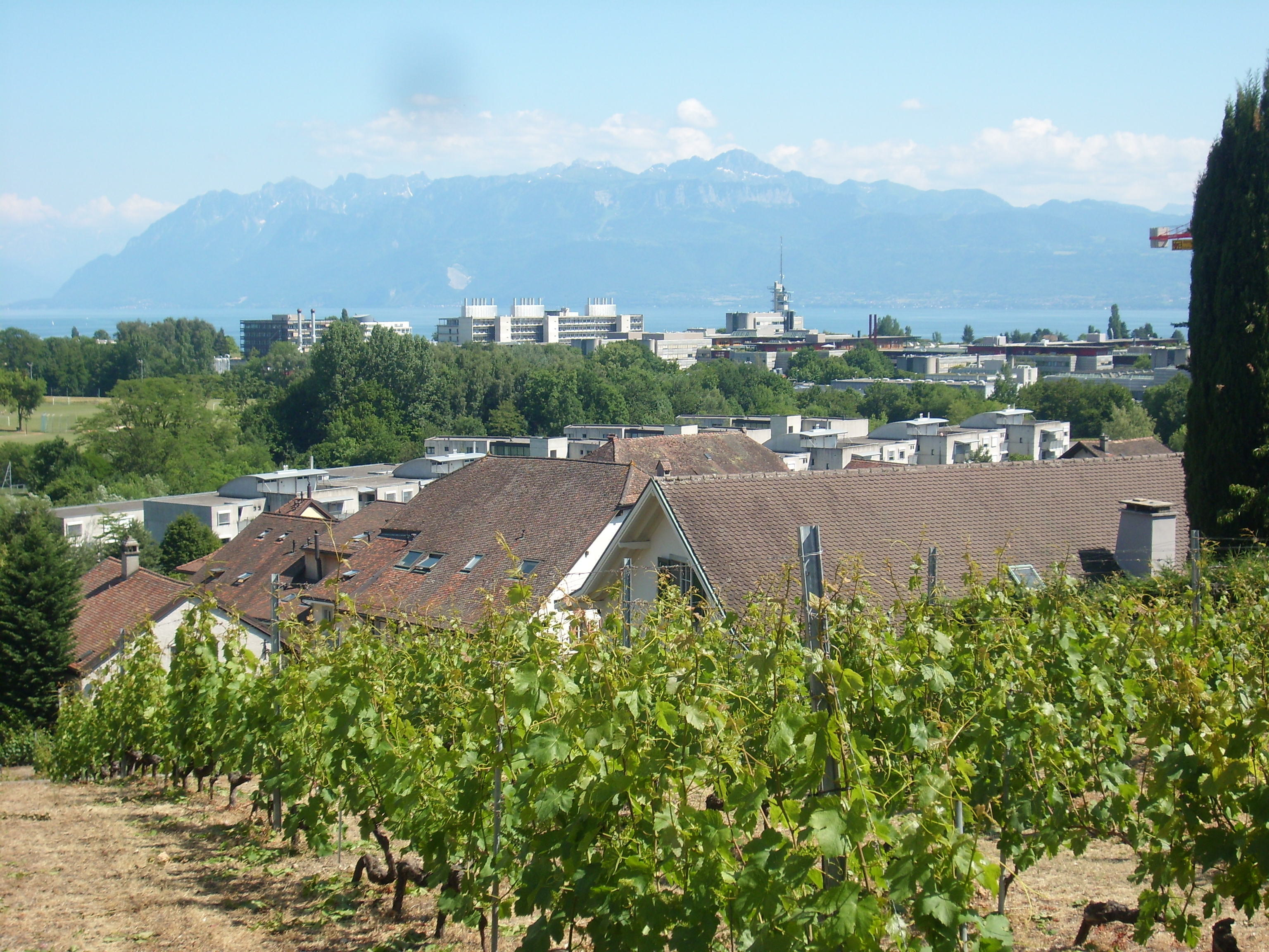 Taken at Latitude/Longitude:46.527122/6.563382. 0.22 km South Ecublens Vaud Switzerland